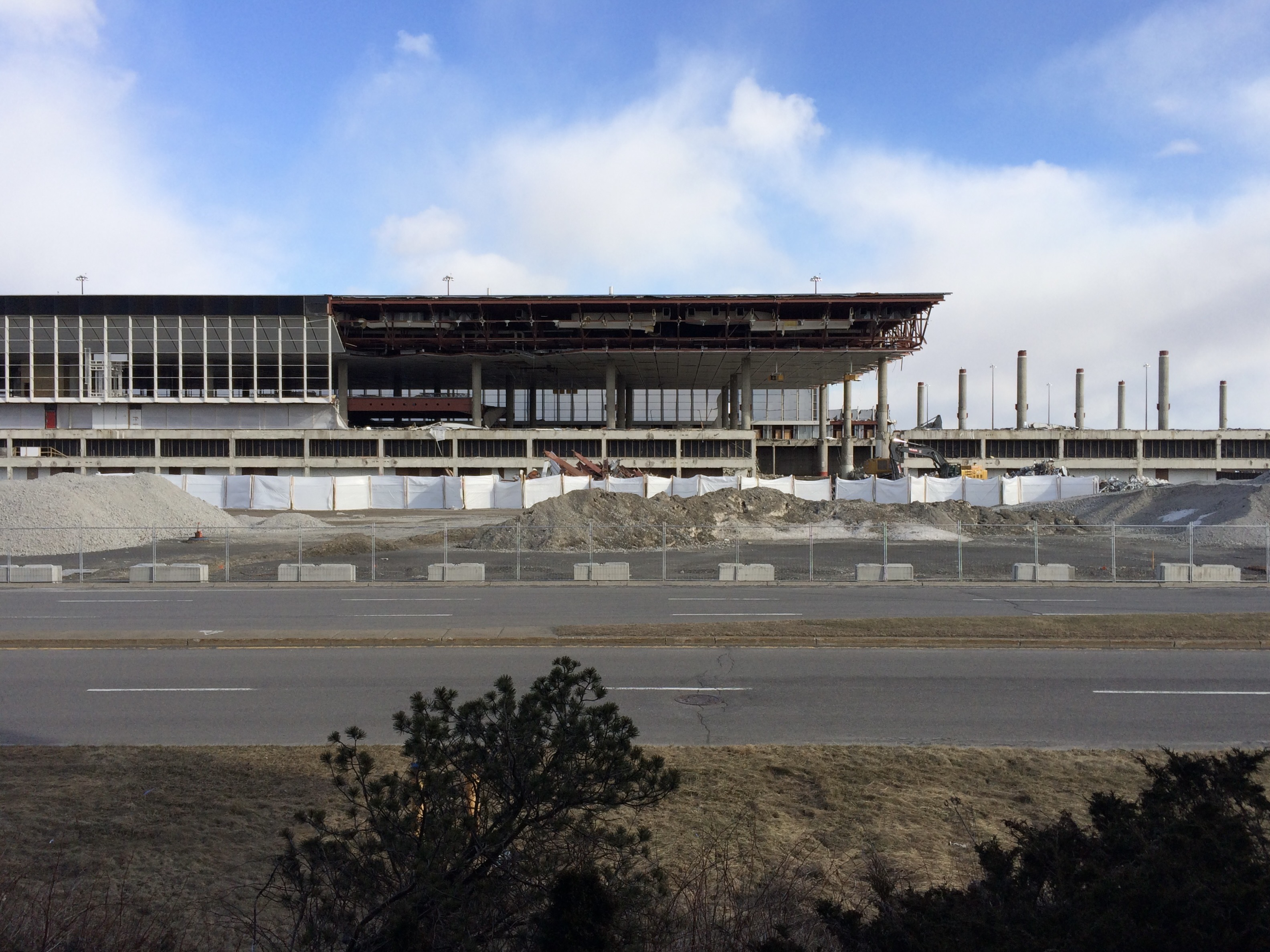 Demolition of Mirabel Airport on 04/03/16